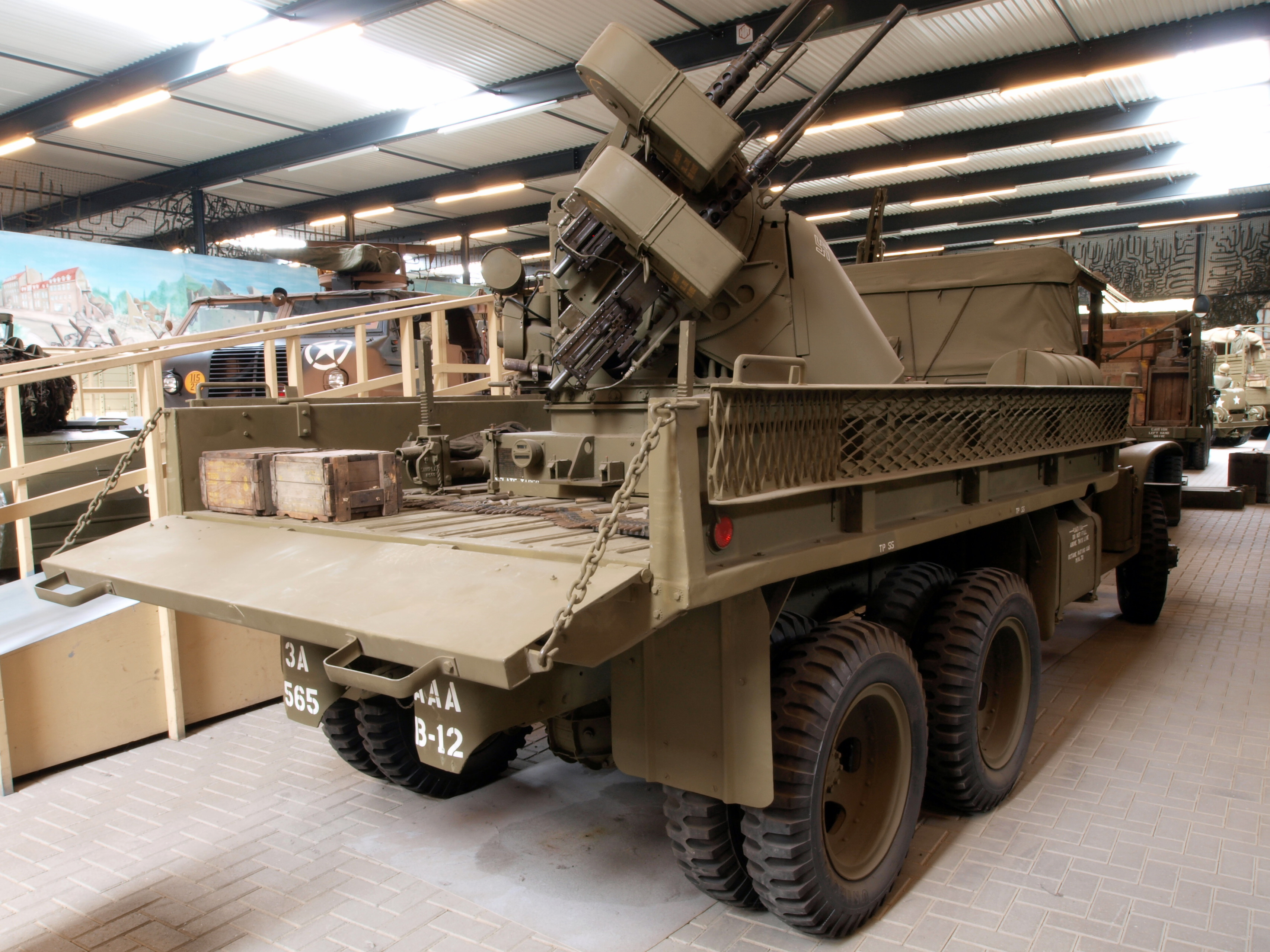 Photographed at the Marshallmuseum - Liberty Park - Oorlogsmuseum Overloon, The Netherlands.